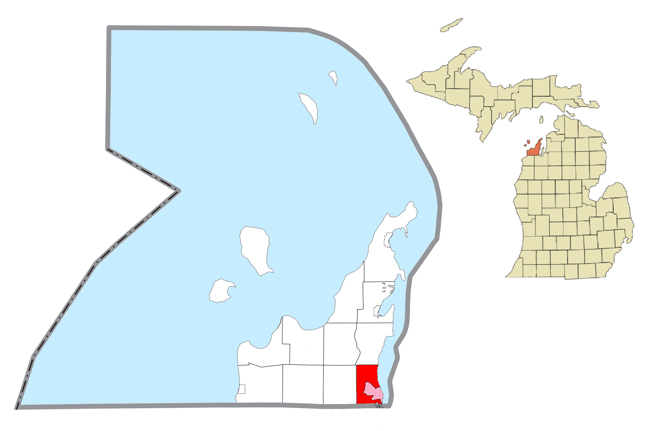 Elwood Charter Township, MI